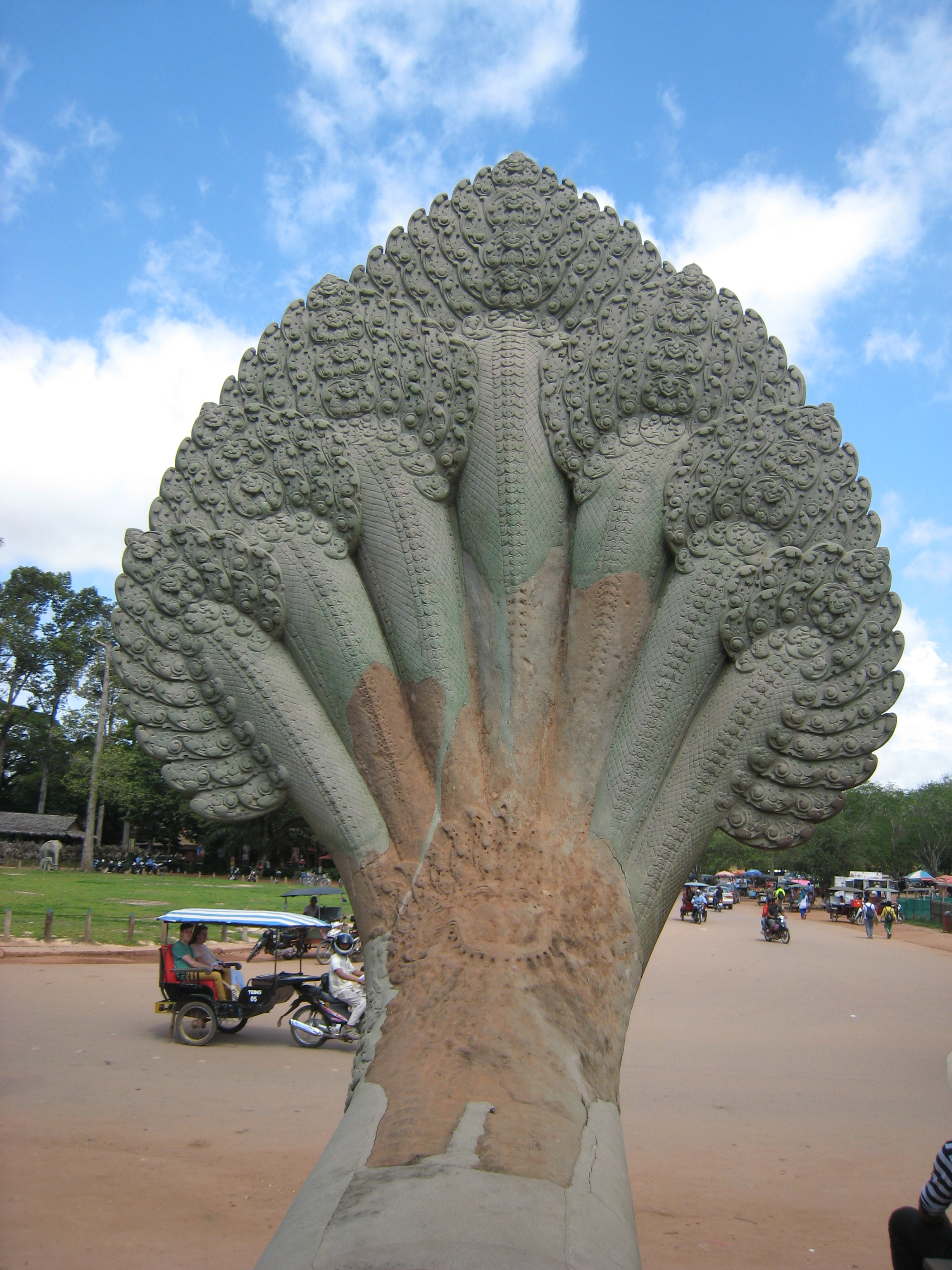 The back of a nâga in front of the enter of Angkor Vat.